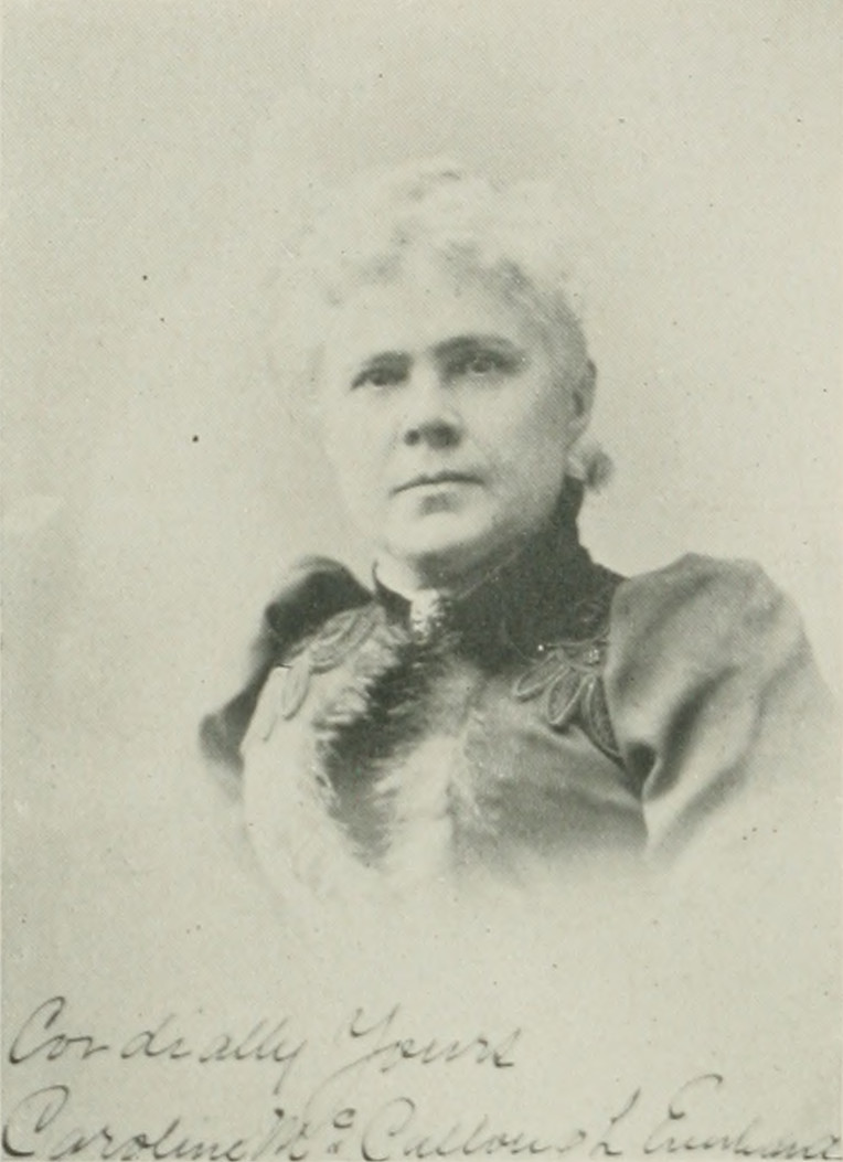 a Woman of the Century